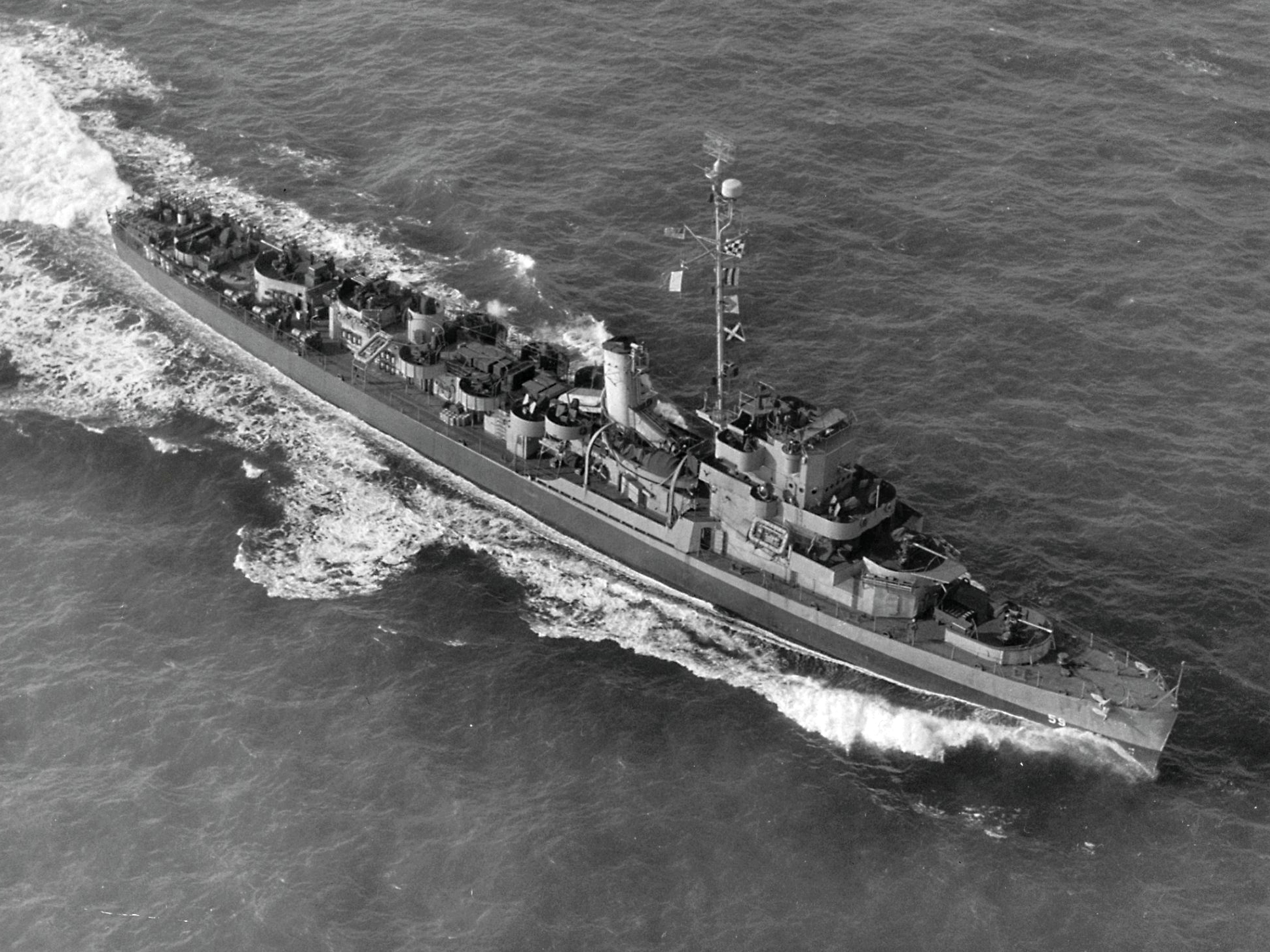 The U.S. Navy destroyer escort USS Foss (DE-59) underway off Brooklyn, New York (USA) on 8 December 1944. Foss arrived at the New York Naval Shipyard on 2 December 1944 for some work involving an experimental sonar being carried out by the U.S. Navy Bureau of Ships.